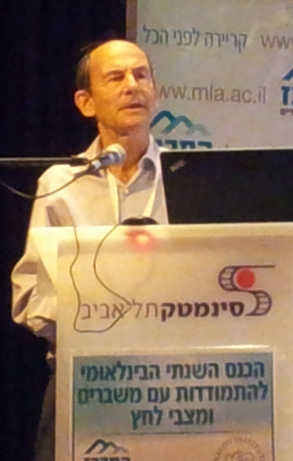 prof. Amiram Raviv